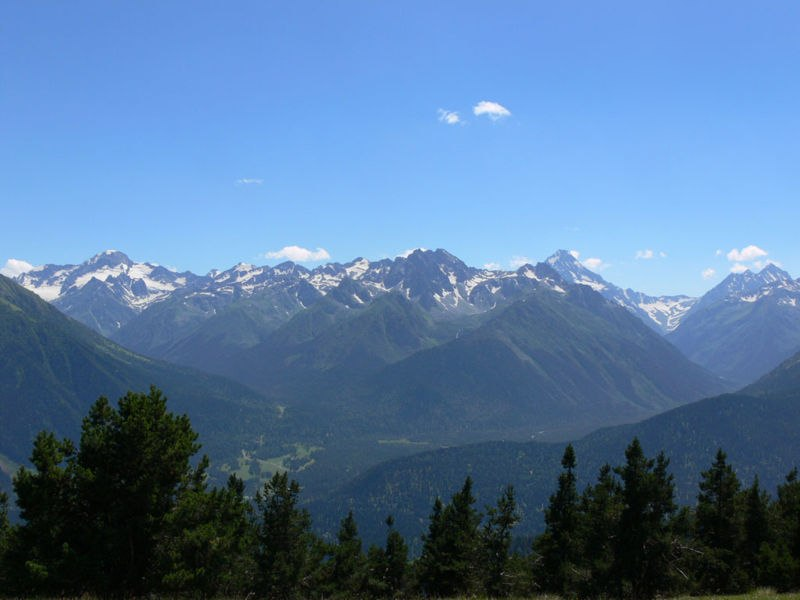 Caucasus Mountains near Arkhyz.